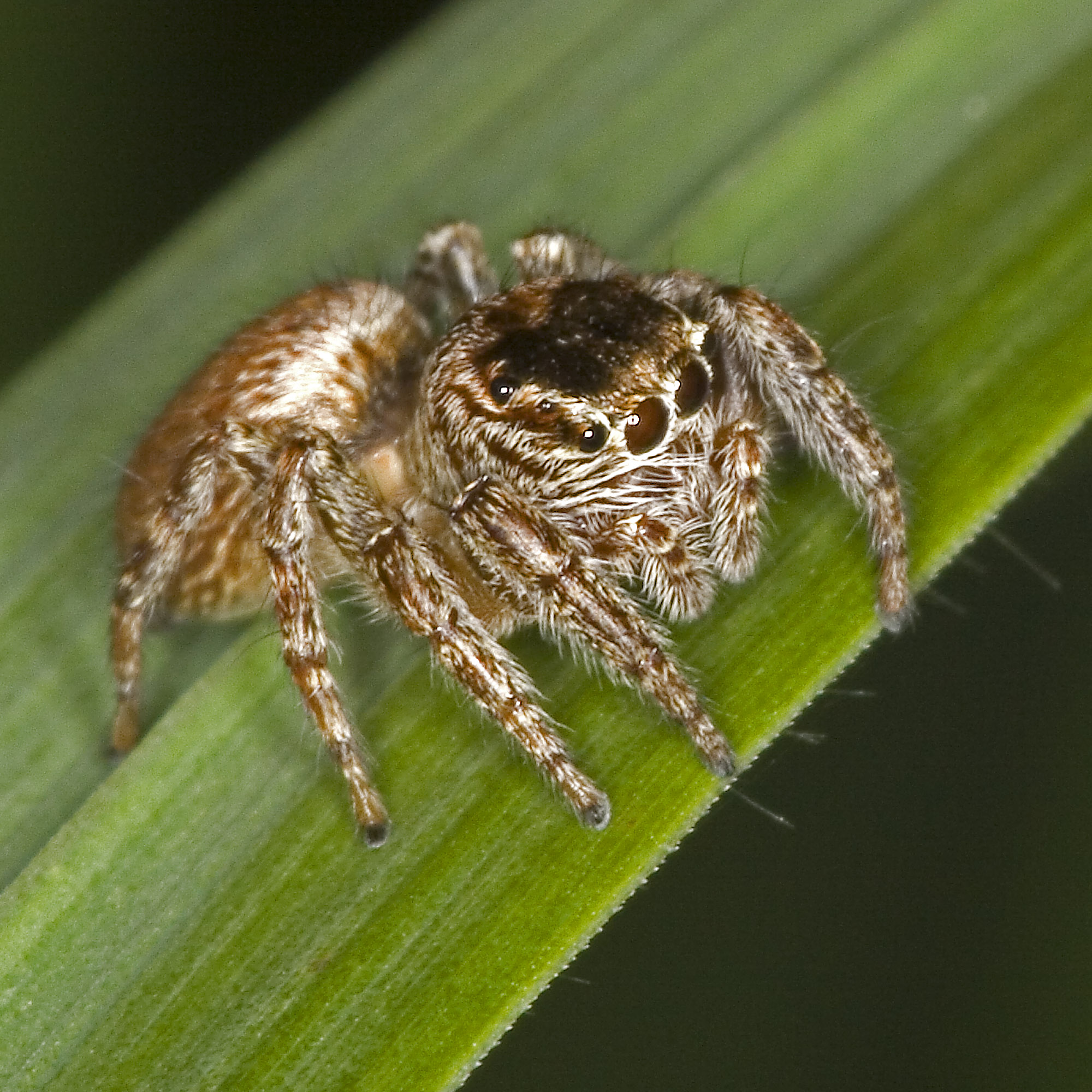 This is probably a female of Evarcha falcata (Clerck, 1758) (95%). There is a small unsafeness that this species is E. arcuata (5%). This specimen has a size of 5 millimeters. Thanks to Jürgen Peters for determination! Location: Laußnitzer Heide between Ottendorf-Okrilla and Königsbrück (Saxony, Germany) 5/180L f22 Film / Speed: ISO 200 Comment: Canon Ring Flash MR-14EX